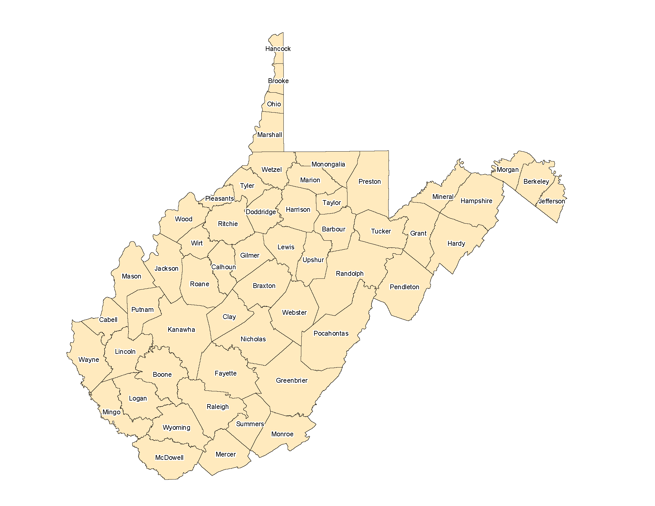 Map of West Virginia counties.